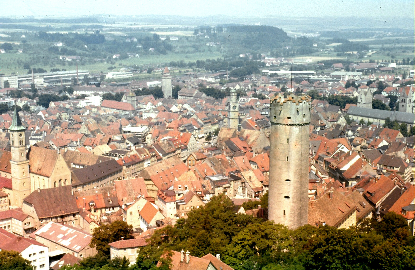 Ravensburg, Germany: View from the Veitsburg castle (to the West)